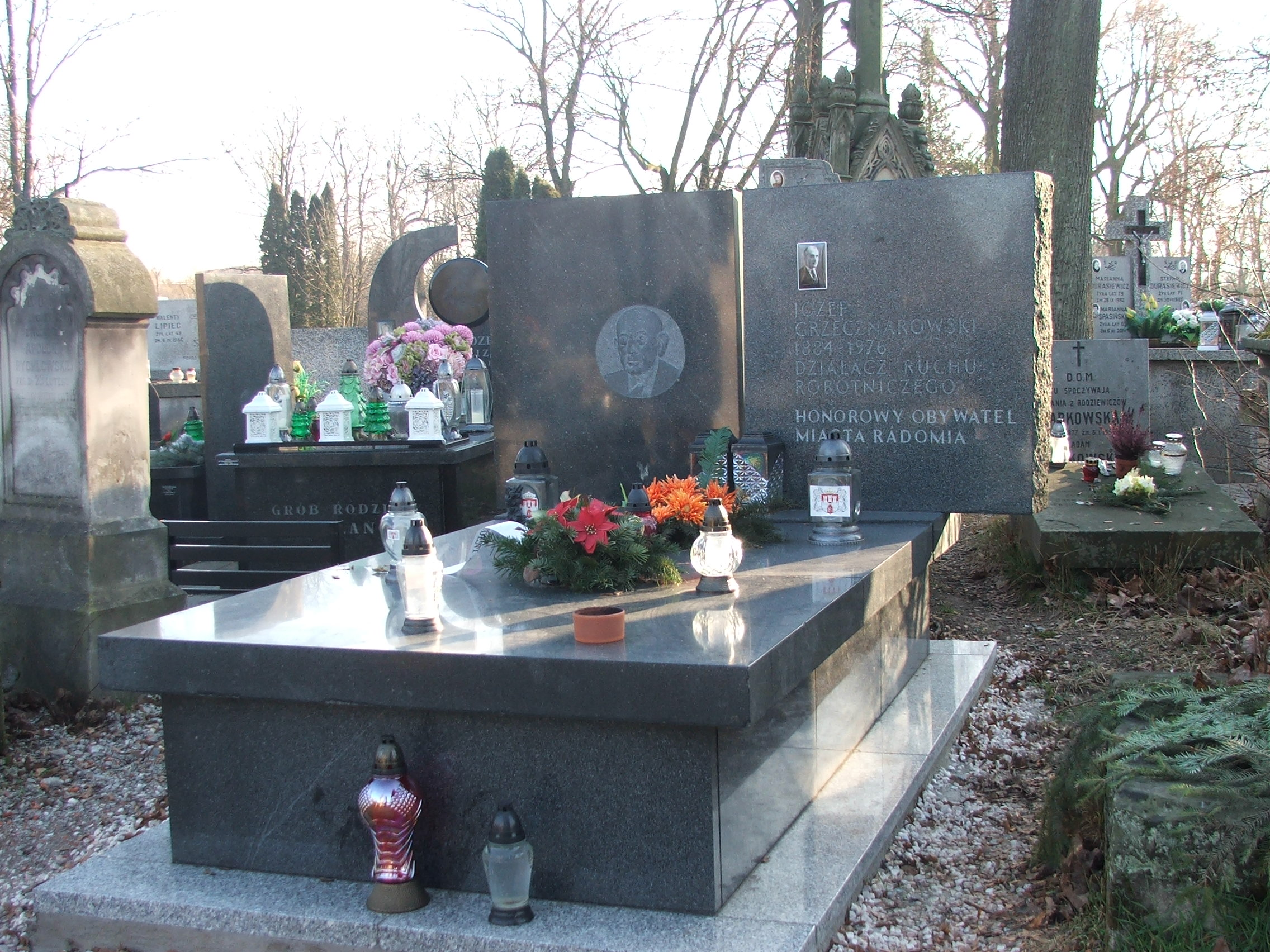 Roman Catholic cemetery in Radom - tomb of Józef Grzecznarowski